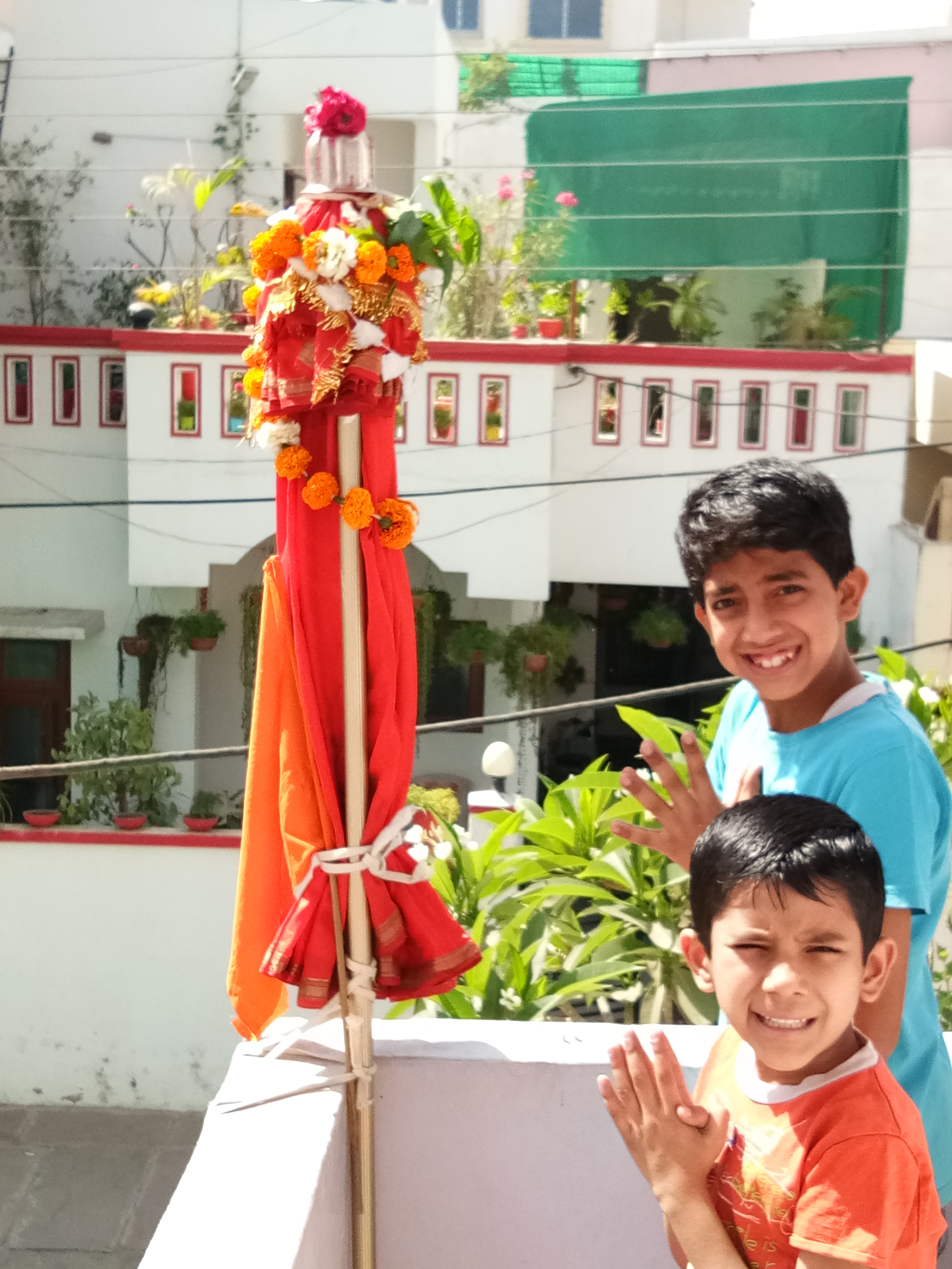 Childrens Celebrating Guripadva in India